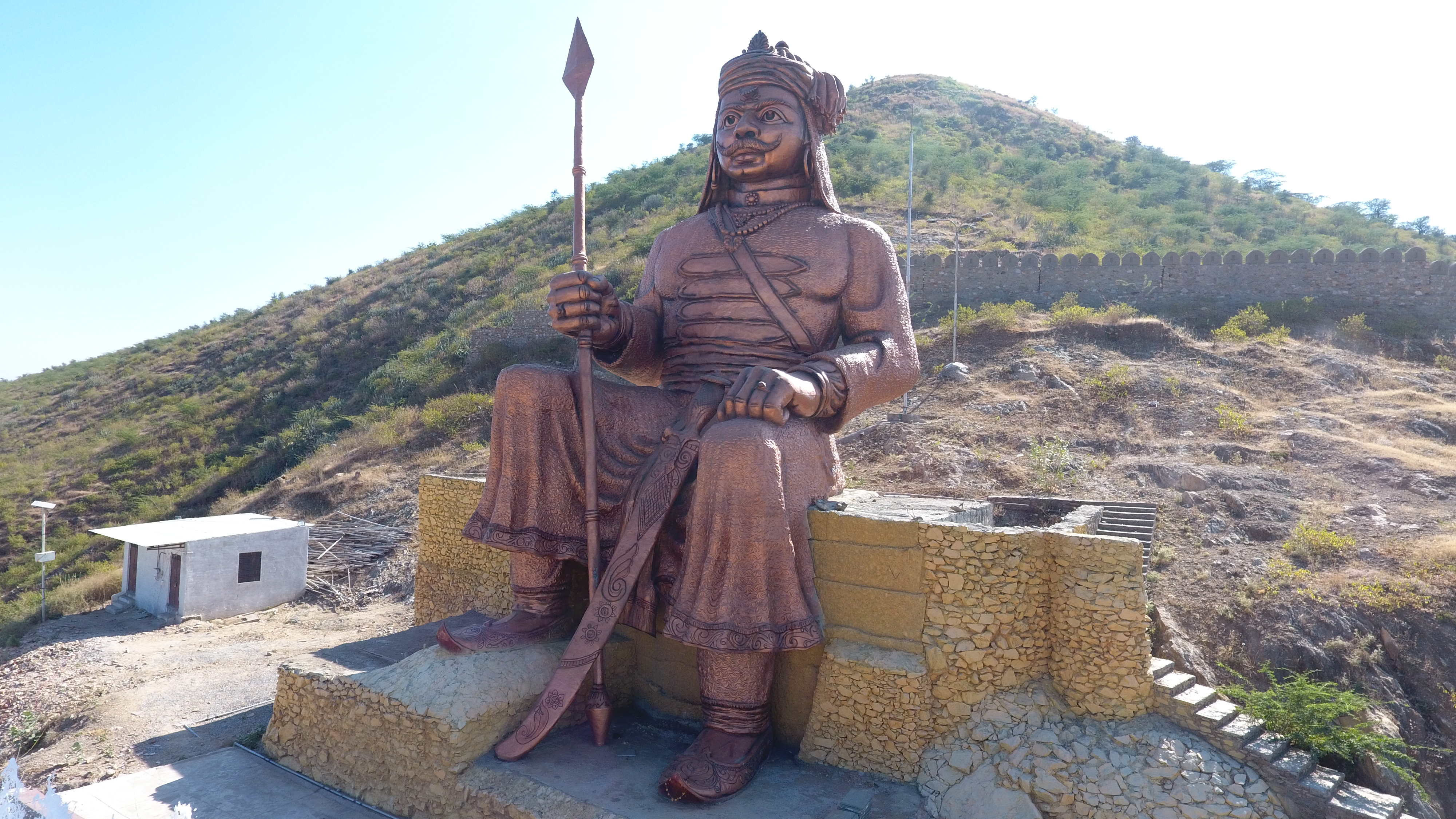 world's largest statue